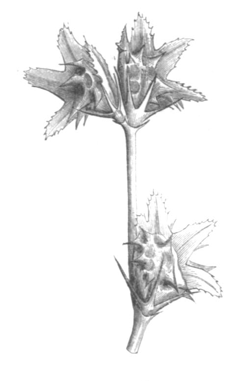 Illustration from book